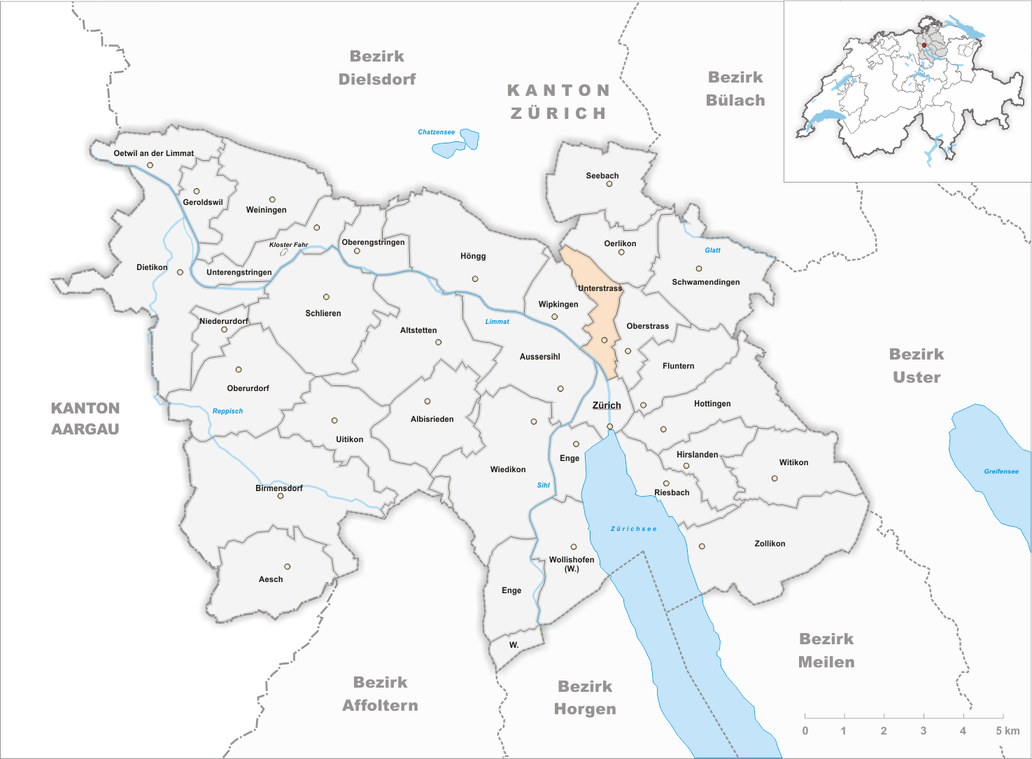 Municipality Unterstrass